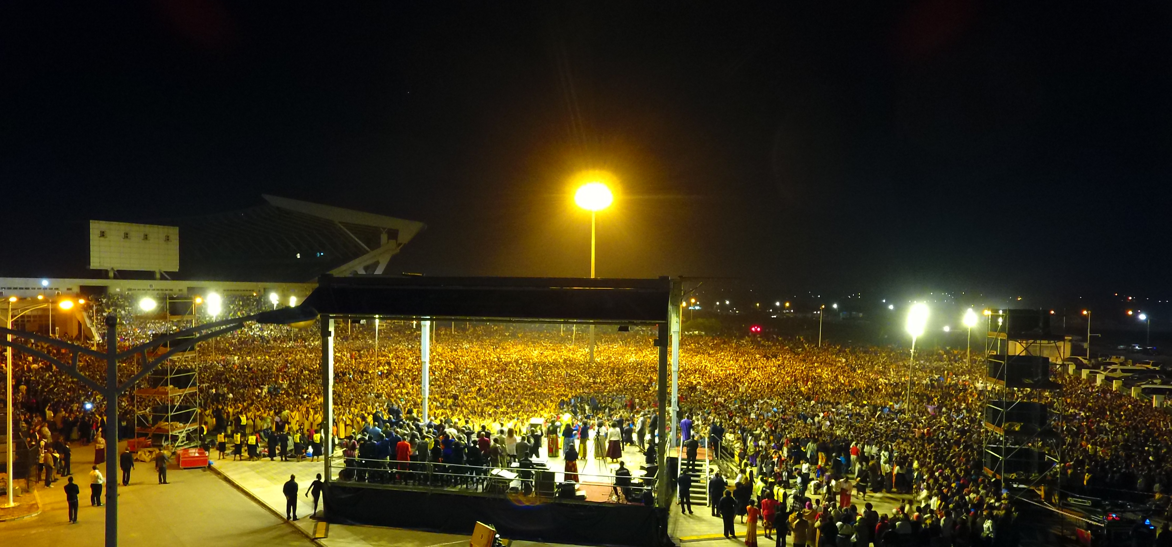 Healing Jesus Campaign with African Evangelist Dag Heward-Mills in Maputo, the capital of Mozambique